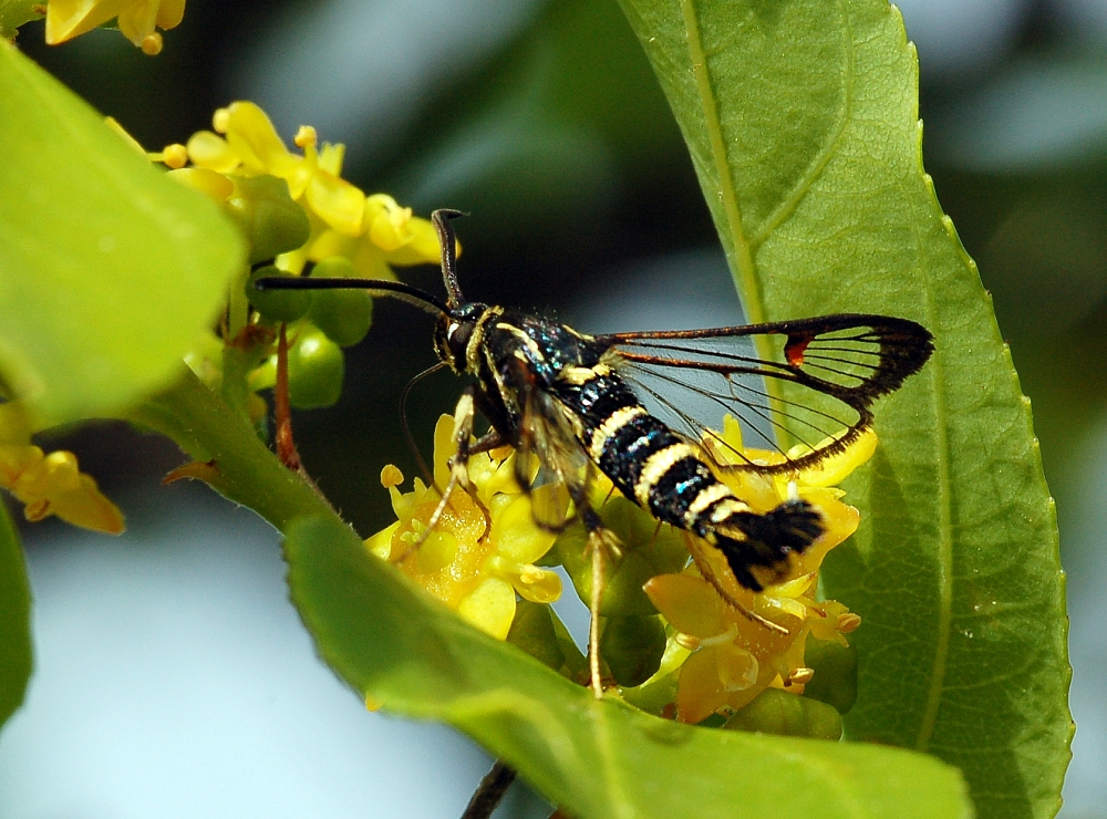 Sesiidae species on Christ's Thorn (Paliurus spina-christi), Frouzet, Languedoc-Roussillon, France